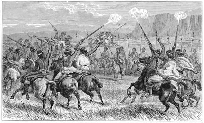 CEREMONY OF WELCOME (TEHUELCHES AND ARAUCANIANS)